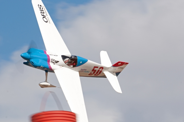 Scarlet Screamer, Aircraft of Vito Wyprächtiger